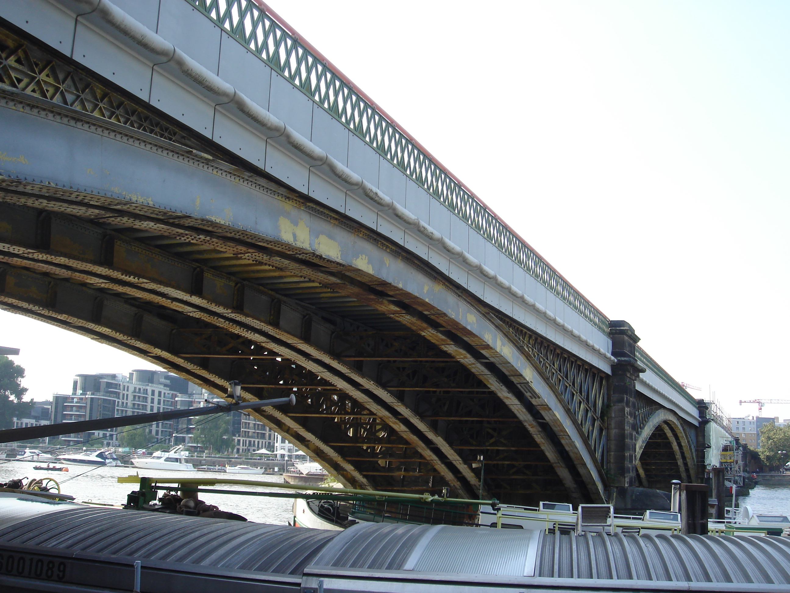 Cremorne Bridge, West London Extension Railway Bridge, Battersea